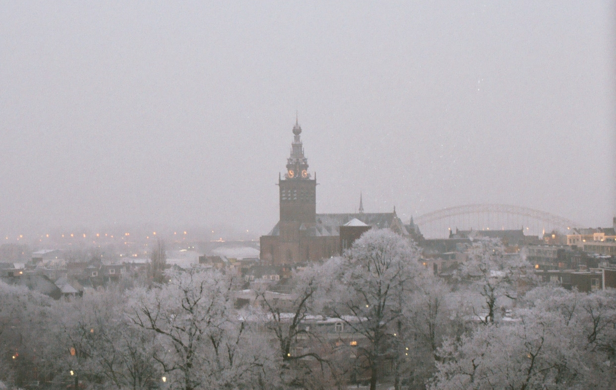 A picture of Nijmegen done in winter 2006 i think it is 2005 or beginning 2006 its not winter yet you see.